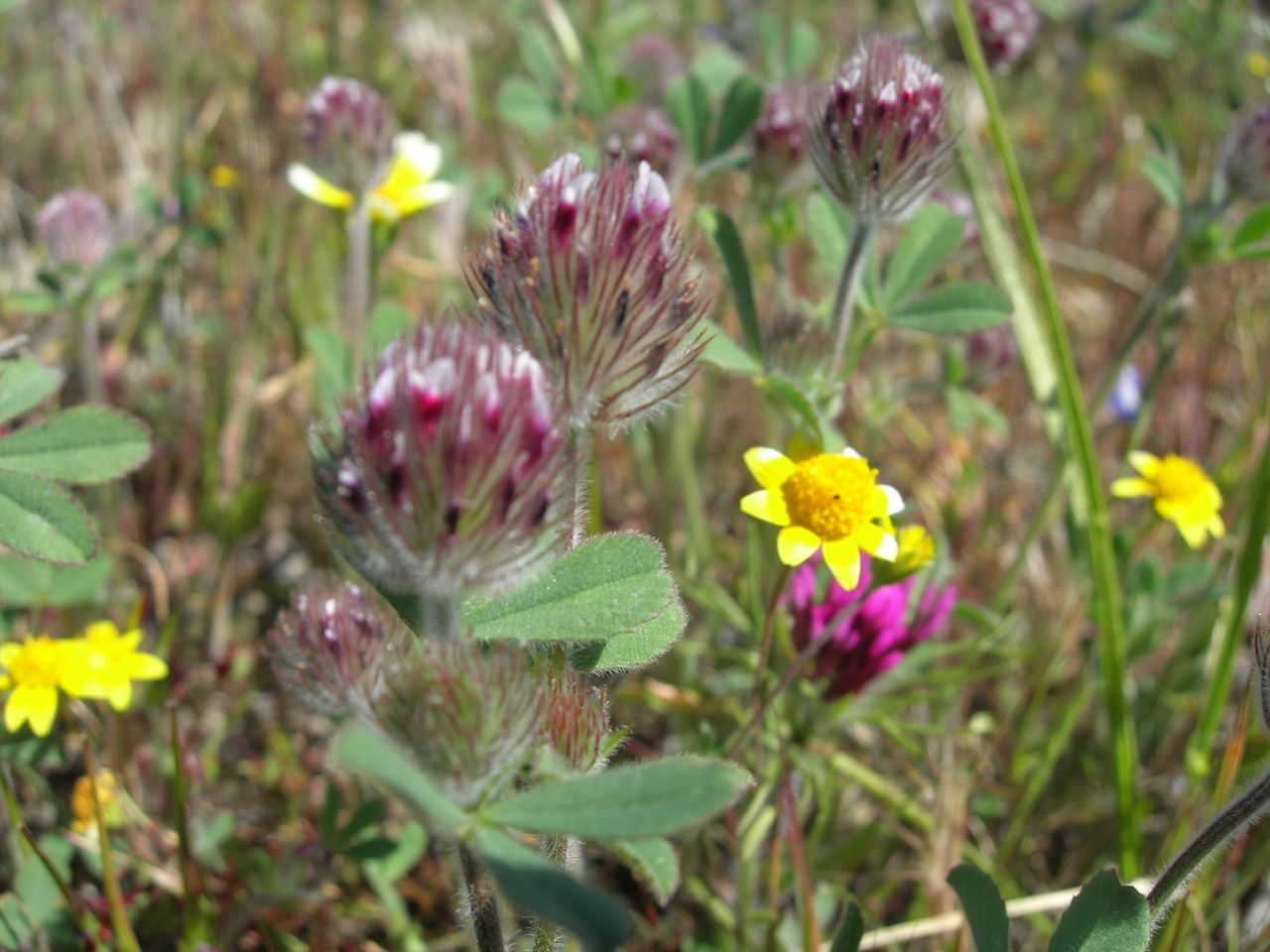 Trifolium albopurpureum with Lasthenia californica — California Goldfields. Located in the Tehachapi foothills, Kern County - California.